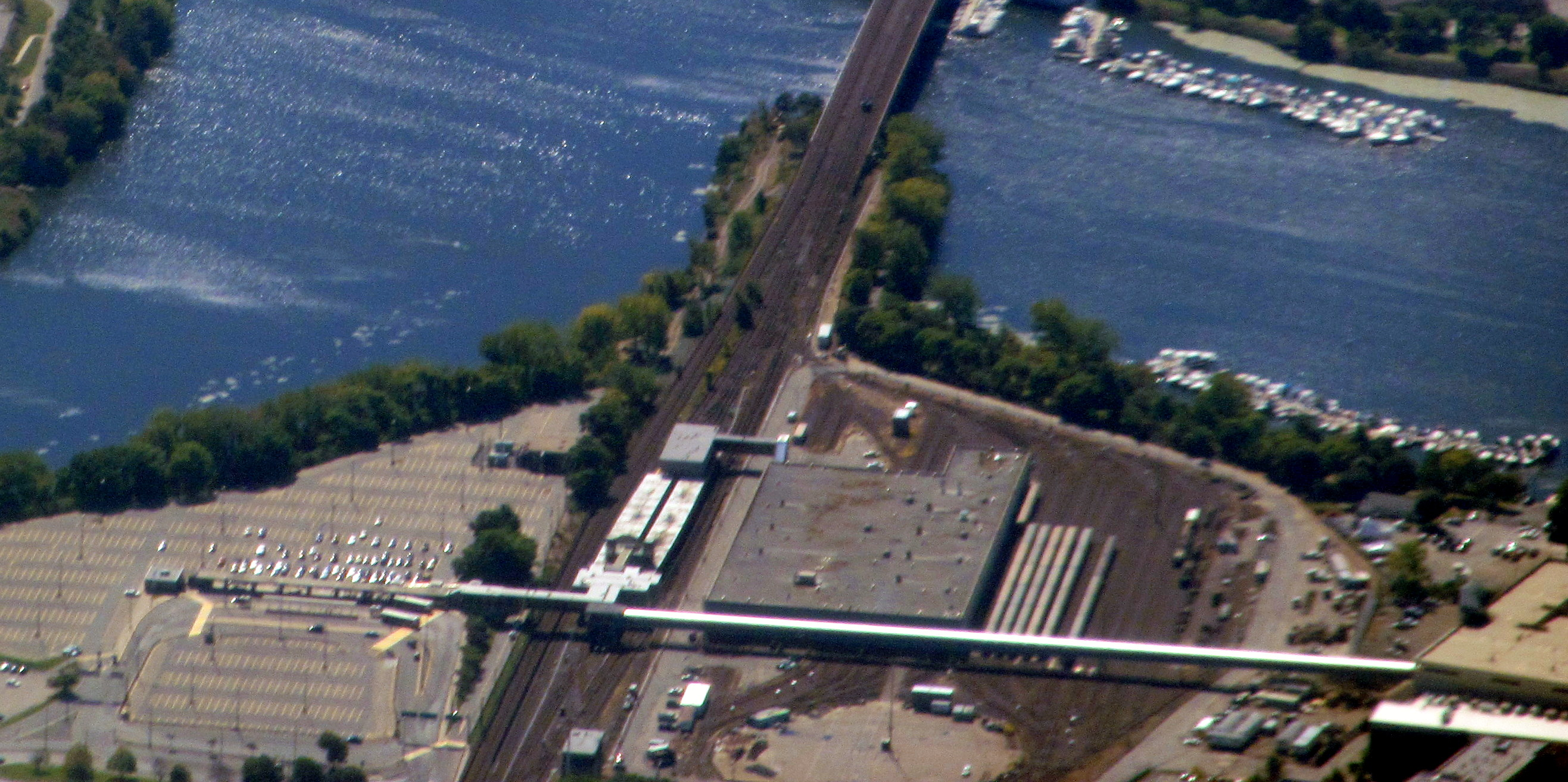 Aerial view of the MBTA's Wellington station taken in September 2012